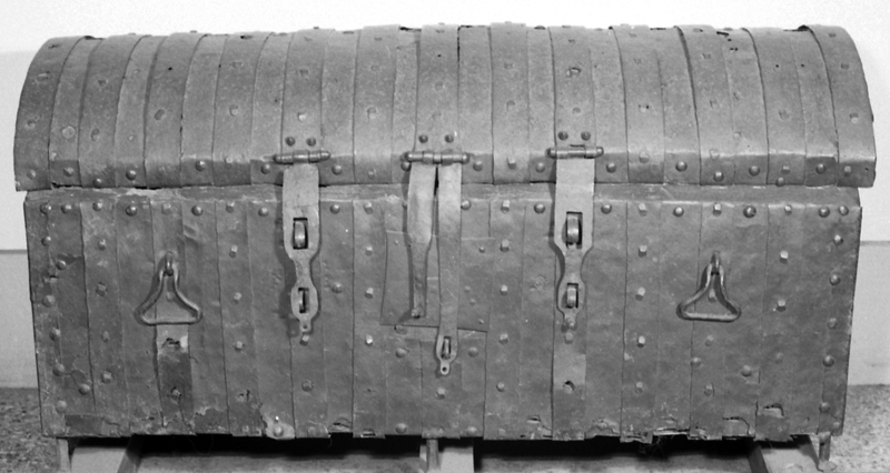 14th century muniment chest, from the collections of The National Archives. Catalogue Reference: E 27/7